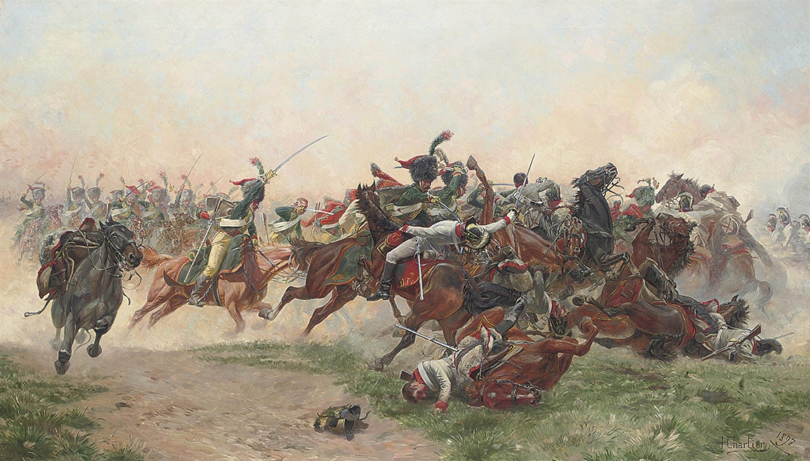 The charge at Wagram